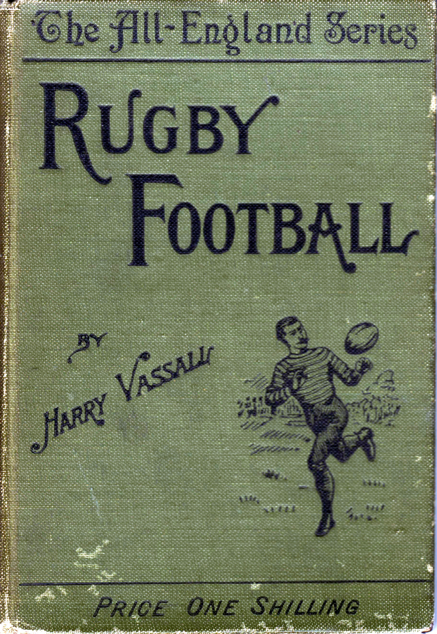 Cover of Rugby Football, written by Harry Vasall.